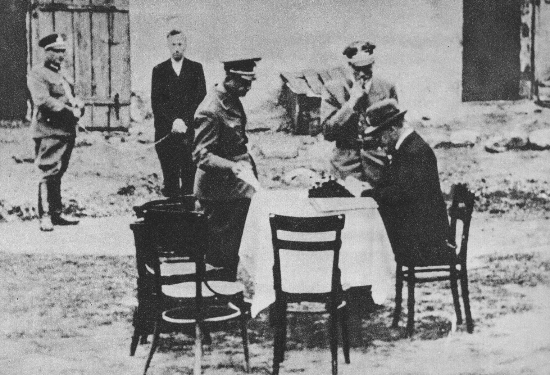 German-occupied city Bydgoszcz in Poland. Open air session of the Nazi-German “Special court in Bydgoszcz” (de: Sondergericht Bromberg). Polish defendant is visible in the background (second from the left). The person sitting at the table (in hat) is Richard Michalowsky who issued 183 death penalty sentences in Bydgoszcz between September 1939 and January 1945.